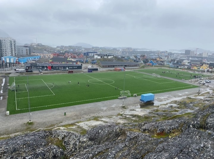 Nuuk Stadium, Greenland's national stadium, after installation of turf